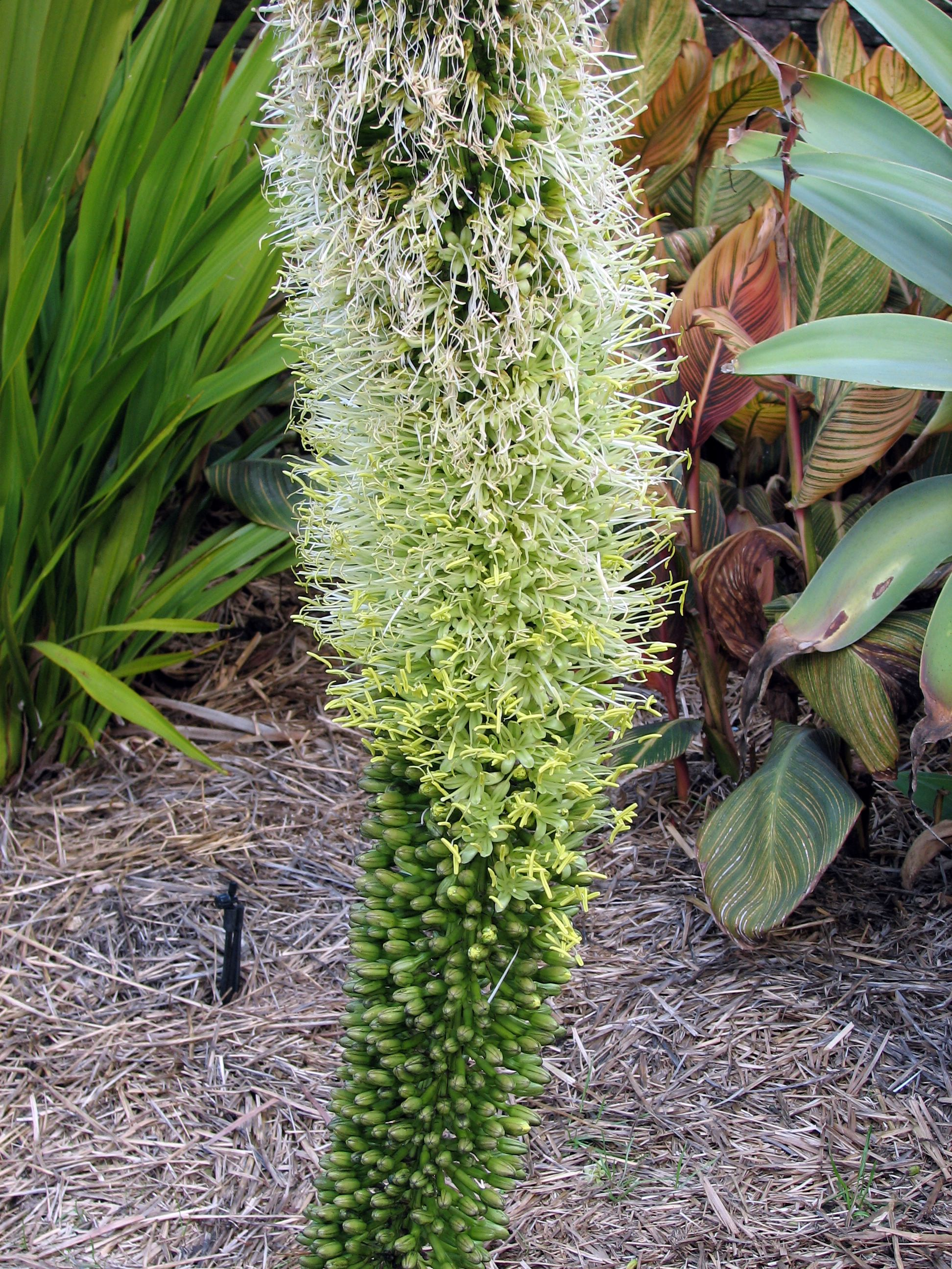 Taken by myself at the Royal Botanic Gardens, Sydney